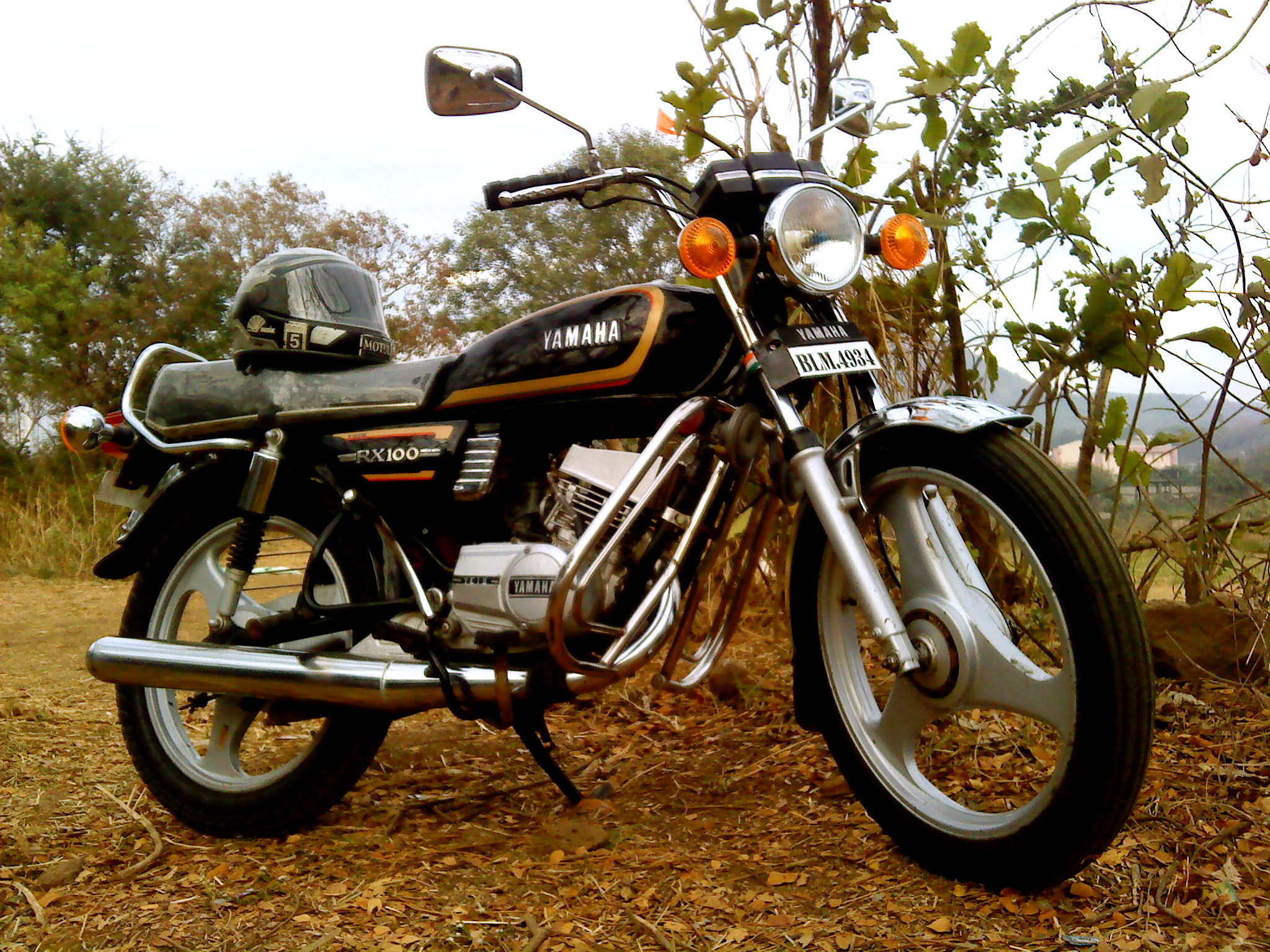 Yamaha Rx 100